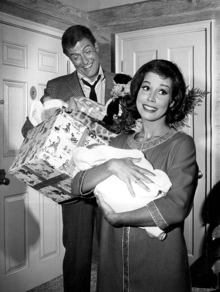 Photo of Dick VanDyke as Rob Petrie and Mary Tyler Moore as Laura Petrie from the television program The Dick VanDyke Show. In this "flashback" episode, Rob and Laura relive the day they brought Richie home from the hospital.